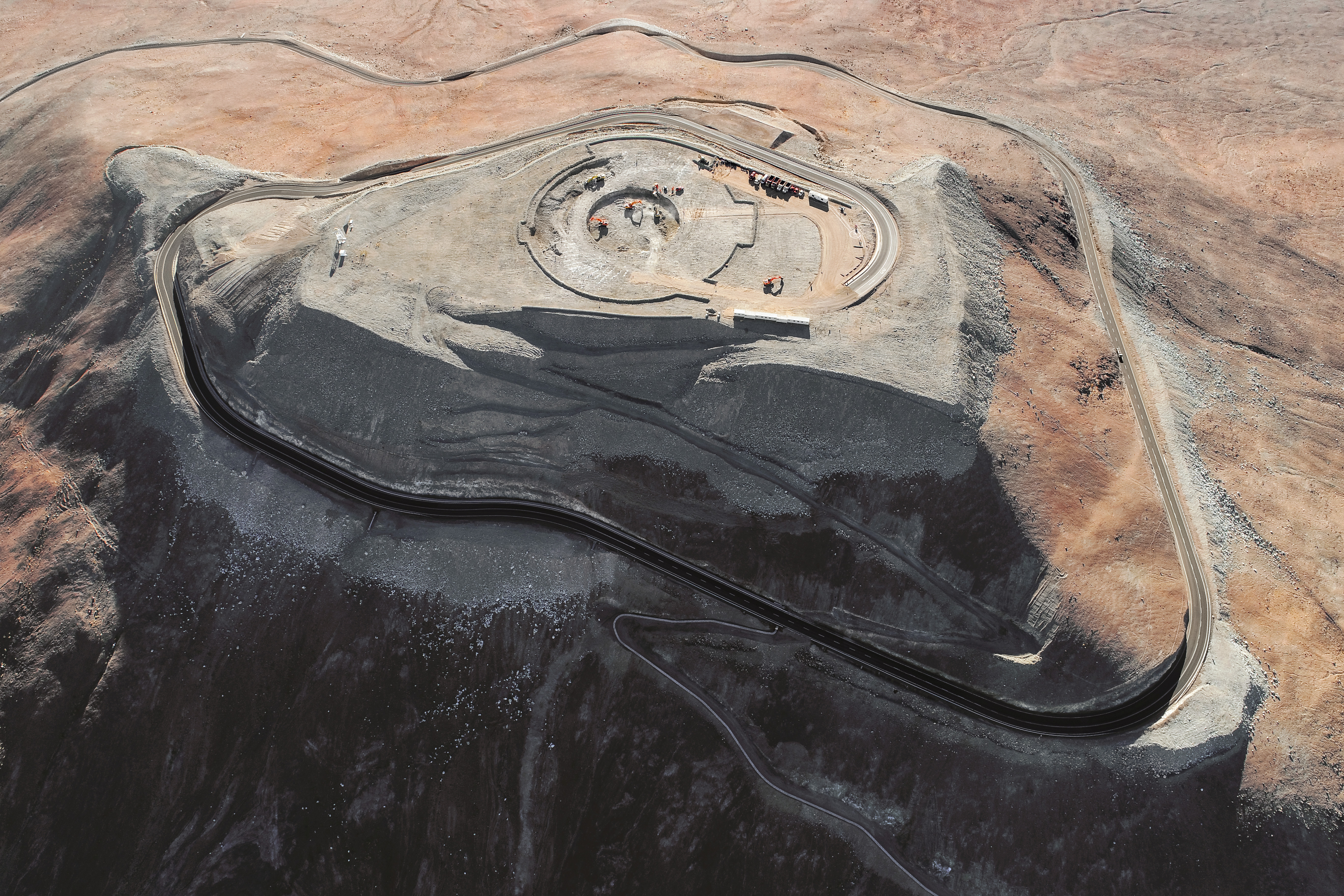 Construction site of the Extremely Large Telescope, aerial view.